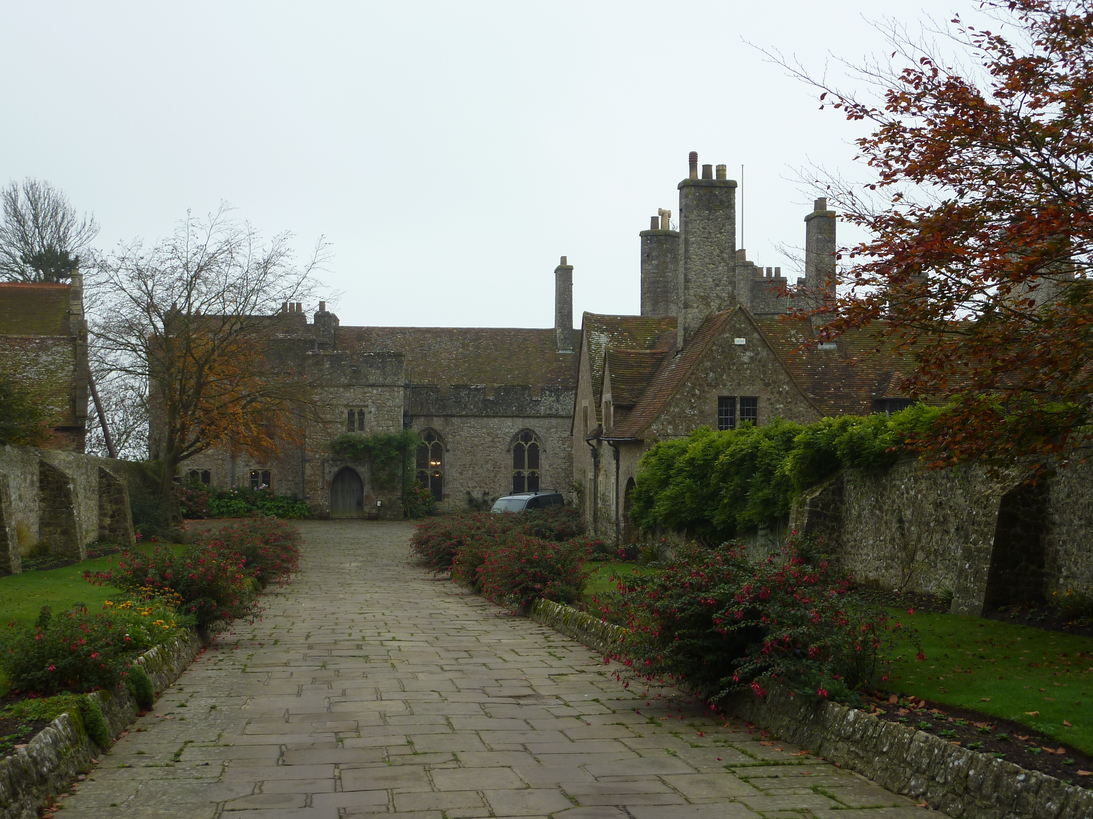 Lympne Castle